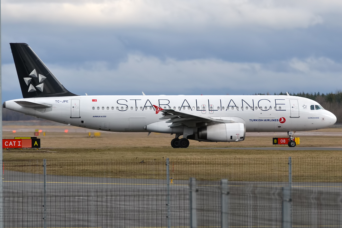 Turkish Airlines (Star Alliance livery), TC-JPE, Airbus A320-232